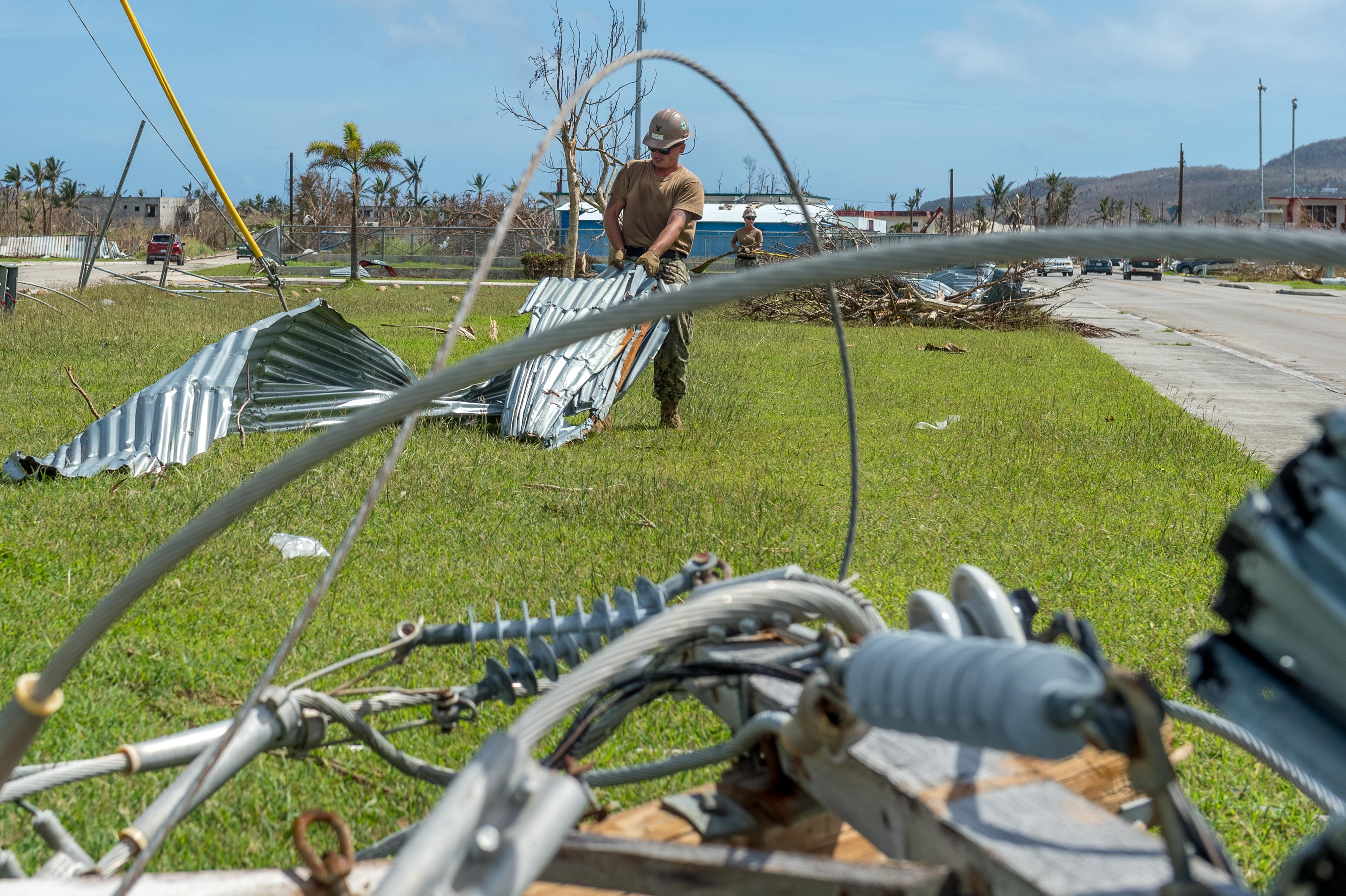 TINIAN, N. Marianas Islands (Nov. 1, 2018) A Seabee assigned to Naval Mobile Construction Battalion (NMCB) 1 removes debris from a road during recovery operations following Typhoon Yutu. Service members from Joint Region Marianas and Indo-Pacific Command are providing Department of Defense support to the Commonwealth of the Northern Mariana Islands civil and local officials as part of the FEMA-supported Typhoon Yutu recovery efforts. (U.S. Navy photo by Chief Mass Communication Specialist Matthew R. White /Released)181101-N-WR252-080